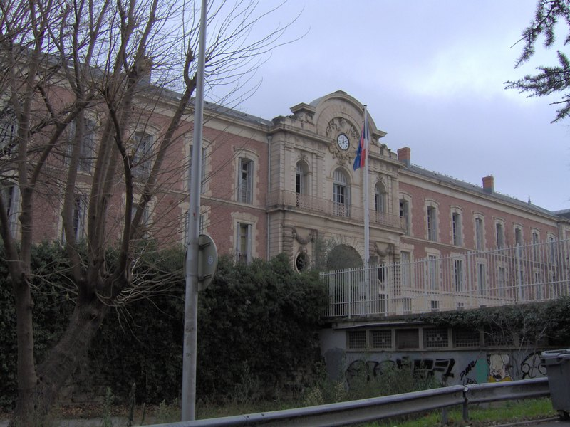 The Lycée Joffre in downtown Montpellier. As viewed from the Auguste Comte alley between the lycée and the Esplanade de Charles de Gaulle